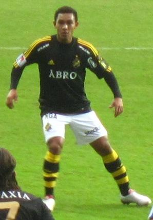 Brazilian football player Antônio Flávio, in 2009 playing for swedish side AIK.